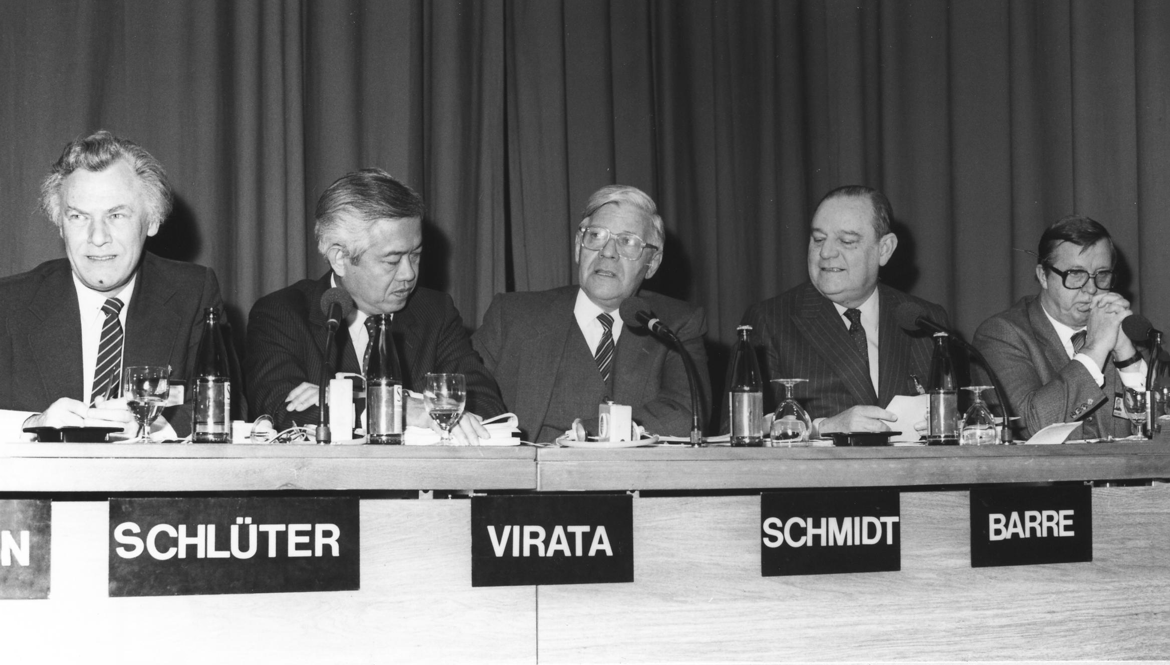 DAVOS/SWITZERLAND, JAN 1983 - (fltr) Poul Schlüter, Prime Minister, Denmark; Cesar E. Virata, Prime Minister, Philippines; Helmut Schmidt, former chancellor of the Federal Republic of Germany; Raymond Barre, Kalevi Sorsa, Prime Minister, Finland captured during the session “New Dimensions of Leadership for Today’s Complex World” at the European Management Symposium, the predecessor of the World Economic Forum in Davos in 1983.